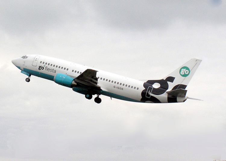 Go Fly Boeing 737 (G-IGOB) at Bristol Airport, Bristol, England. Photographed by Adrian Pingstone in April 2004 and released to the public domain.